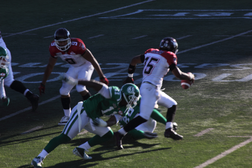 The Saskatchewan Roughriders, played the Calgary Stampeders in Regina, Saskatchewan at Mosaic Stadium at Taylor Field on September 23, 2012 at 2:00 p.m. Both teams play in the Canadian Football League West Division|West Division of the Canadian Football League. The game concluded with a score of Roughriders 30 Stampeders 25. Calgary Stampeders Quarter Back 15 Kevin Glenn under pressure escapes this tackle. 4th quarter Durant Dresser Doubly Dangerous Riders Johnson: Stamps head into the stretch drive ~ With six games left, Calgary could still finish first or last in the wild West Roughriders contain Calgary's Jon Cornish to trip Stampeders 30-25 in Regina ~ Saskatchewan snaps Stamps' four-game winning streak to improve to 6-6 Game Story: Saskatchewan Roughriders 30, Calgary Stampeders 25 ~ Give the game balls to Riders’ Dressler, Lobendahn and Jackson Roughriders snap losing streak against Stampeders Stamps stopped by Riders